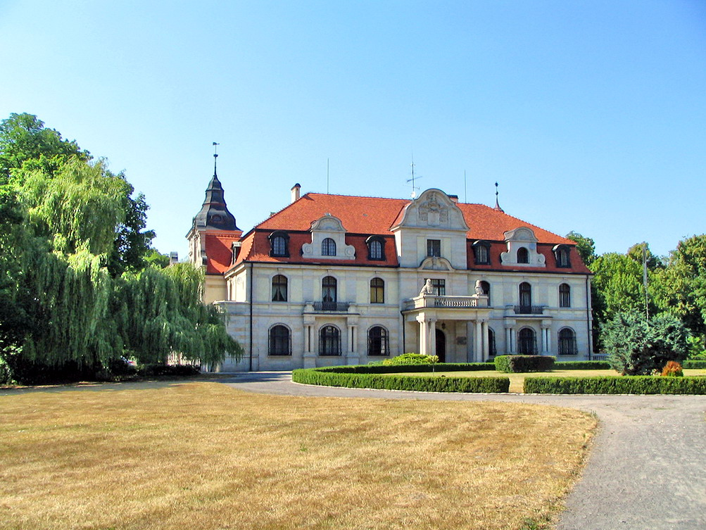 Neo-baroque palace in Smolice